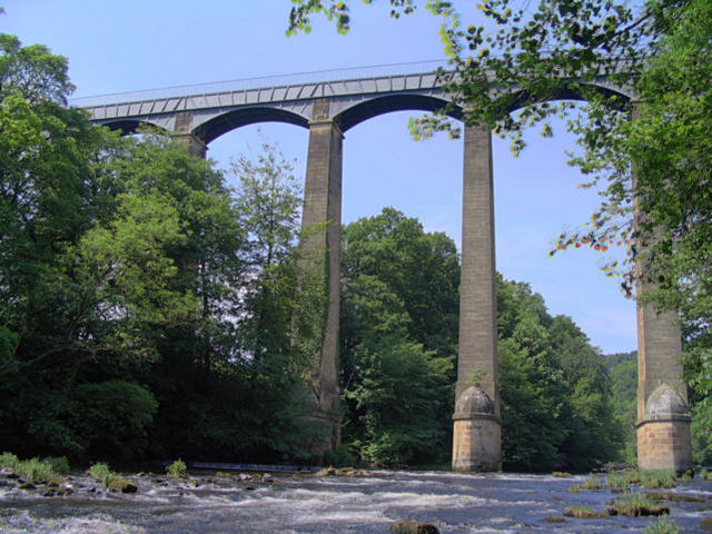 Pont Cysyllte aqueduct